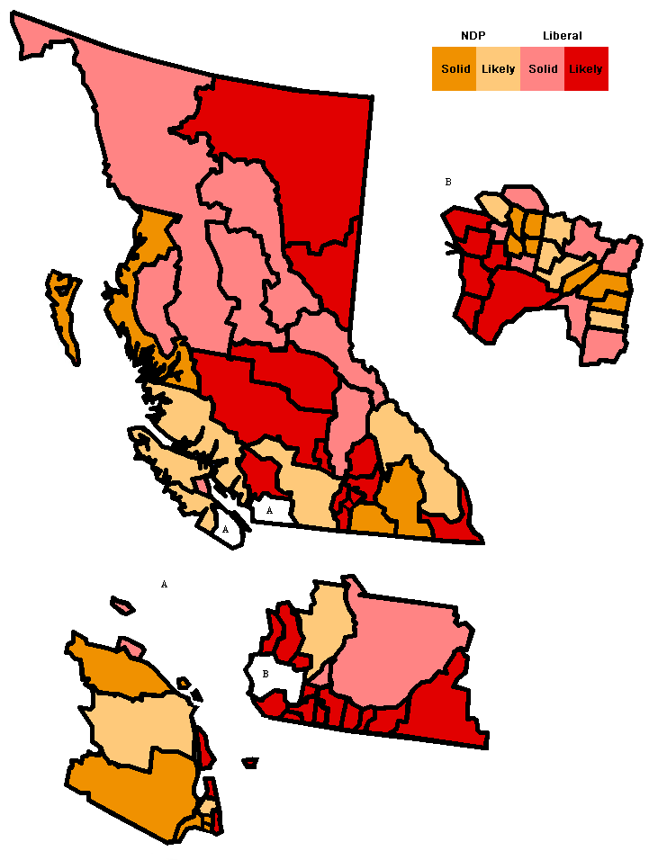 Will McMartin's final prediction on Election 2005, updated 2005-05-15.)